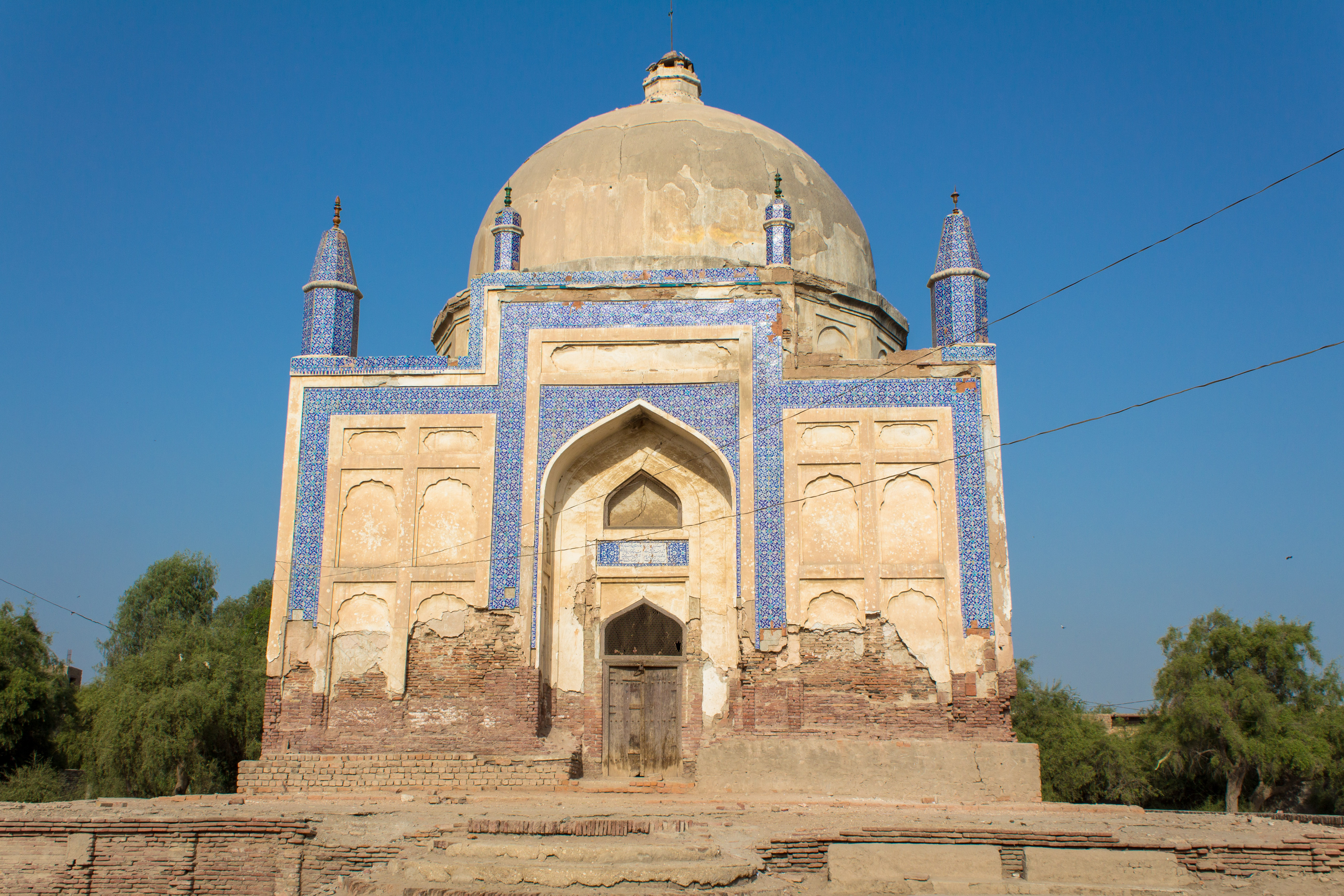 Tomb of Shah Baharo This is a photo of a monument in Pakistan identified as the SD-45